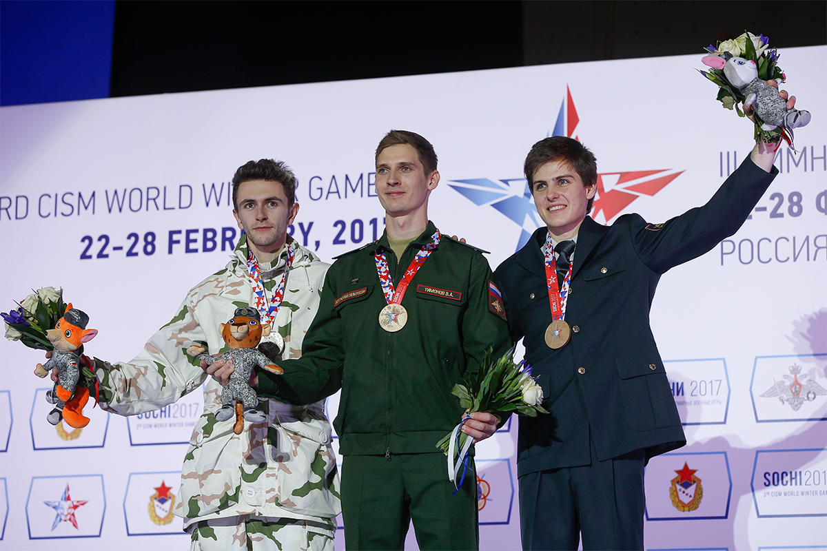 Podium in bouldering at the 2017 CISM Winter World Games.From left to right: Manuel Cornu from France (silver); Vadim Timonov from Russia (gold); Domen Škofic from Slovenia (bronze).